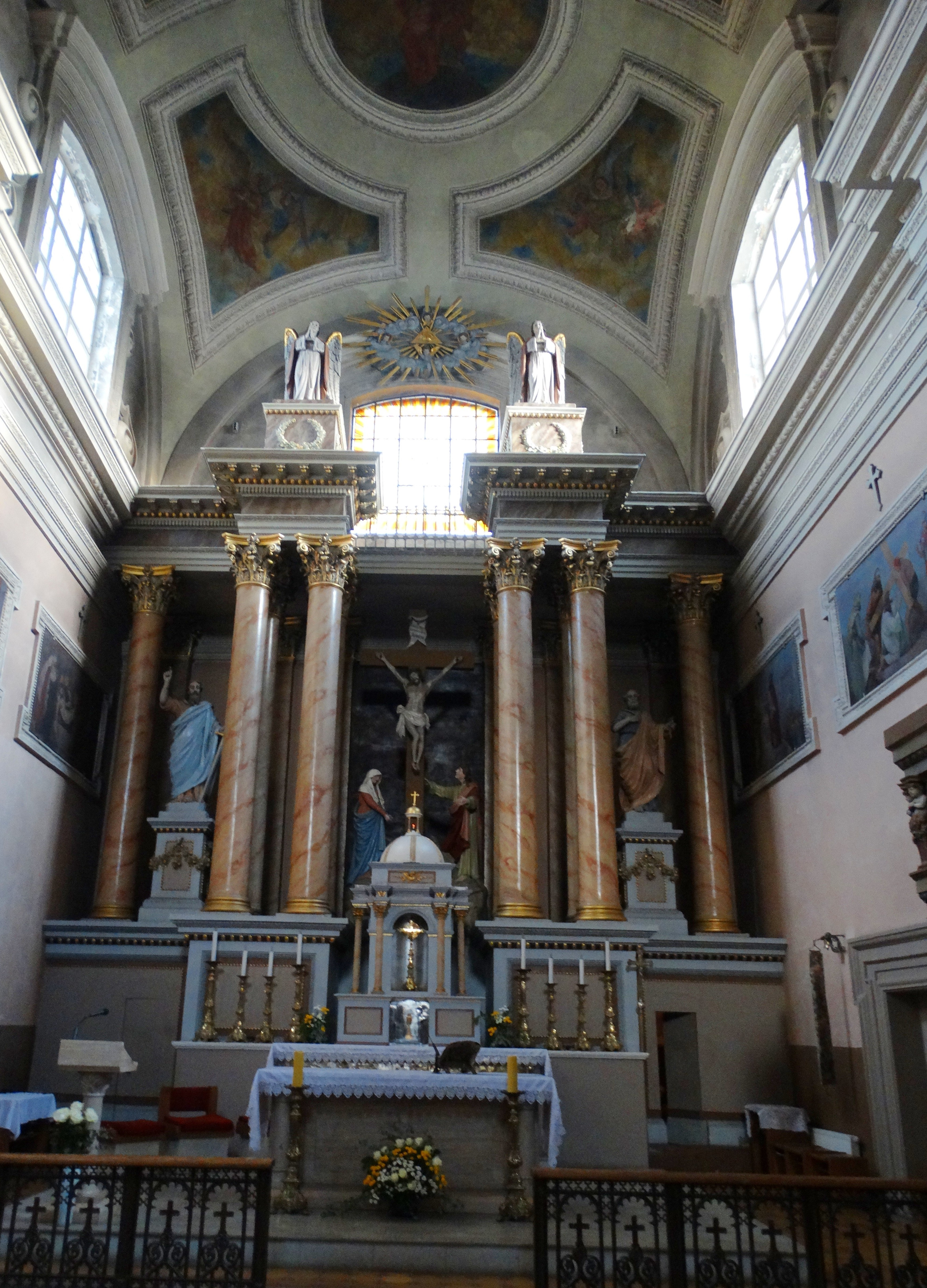 Interior, Church of the Holy Cross (Carmelites), Kaunas